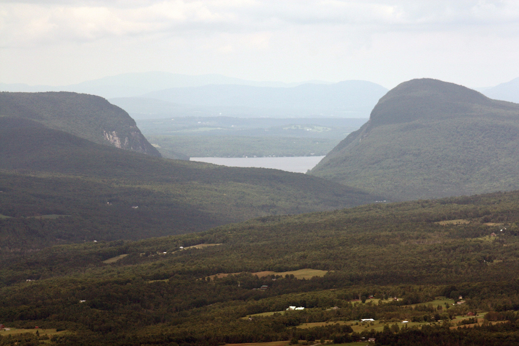 A view of Willoughby Notch, Willoughby Lake encased between Hor Mountain (left) and Mount Pisga (right).